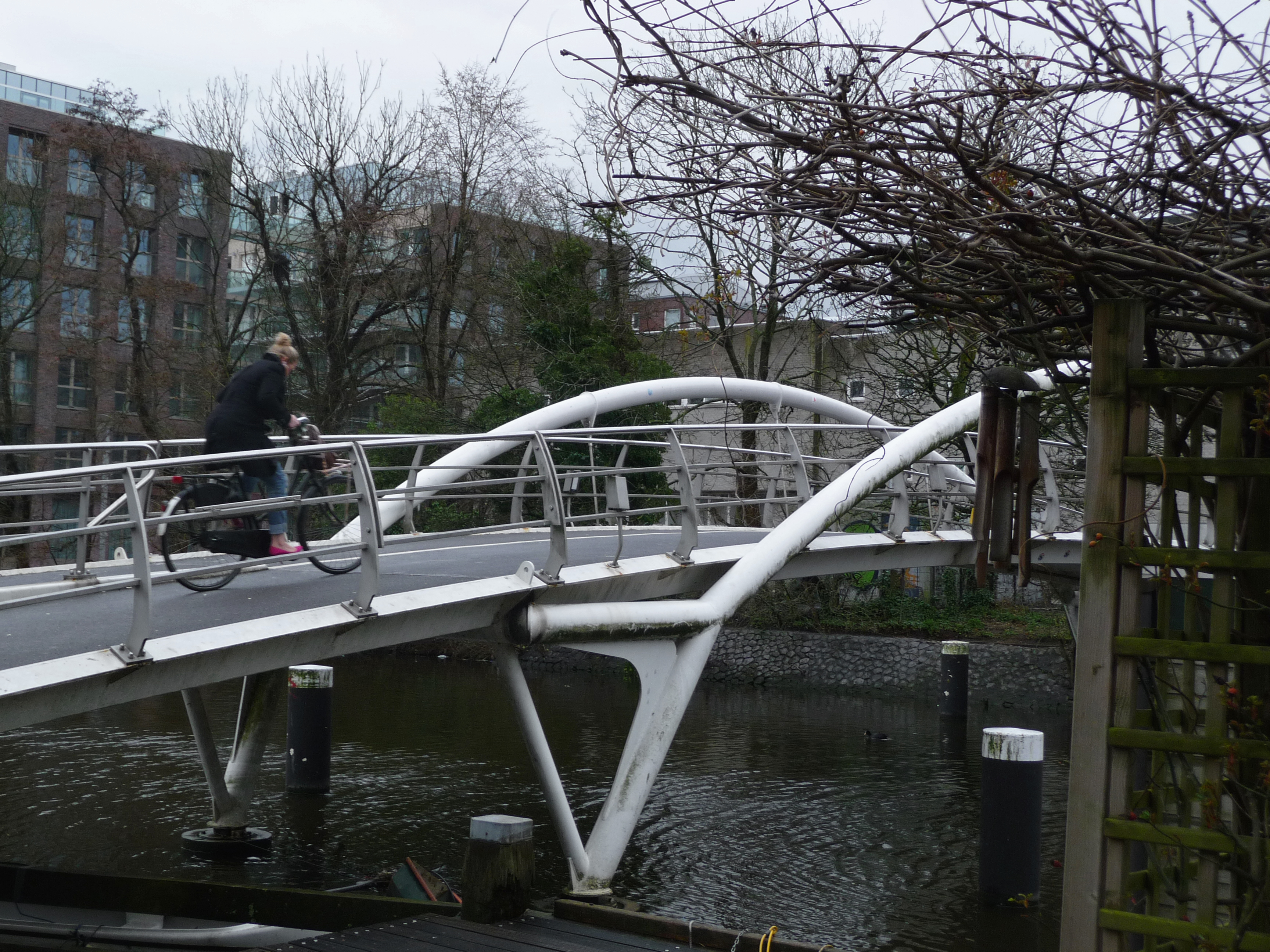 Photo of the modern metallic bicycle bridge in Amsterdam-West over the canal Jacob van Lennepkade crossing the Bilderdijkkade to the right; this bridge was built in the 1990's in a very common new design for renewing Amsterdam city, constructed in a slight bow.